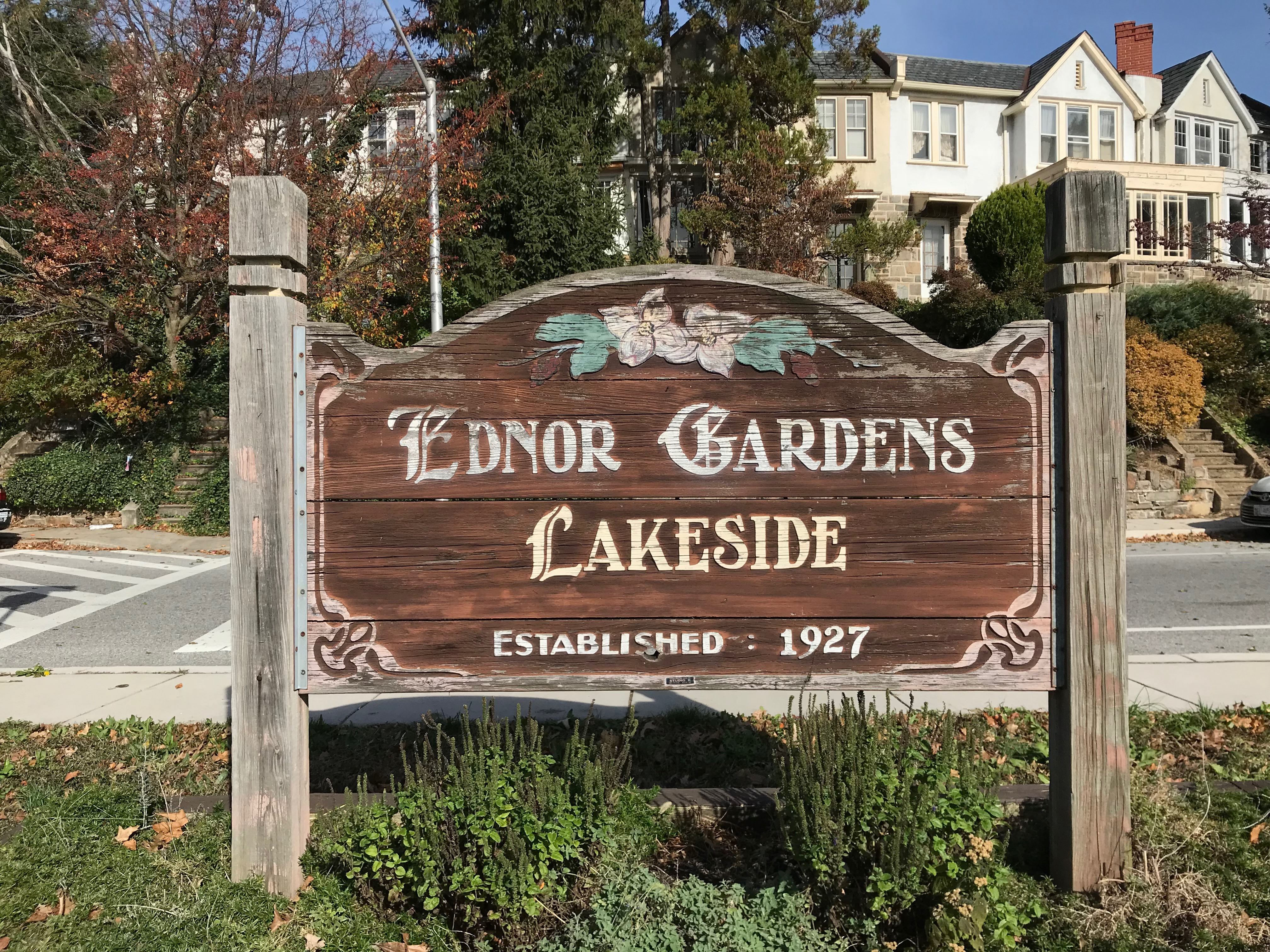 Photograph by Eli Pousson, 2017 November 11.